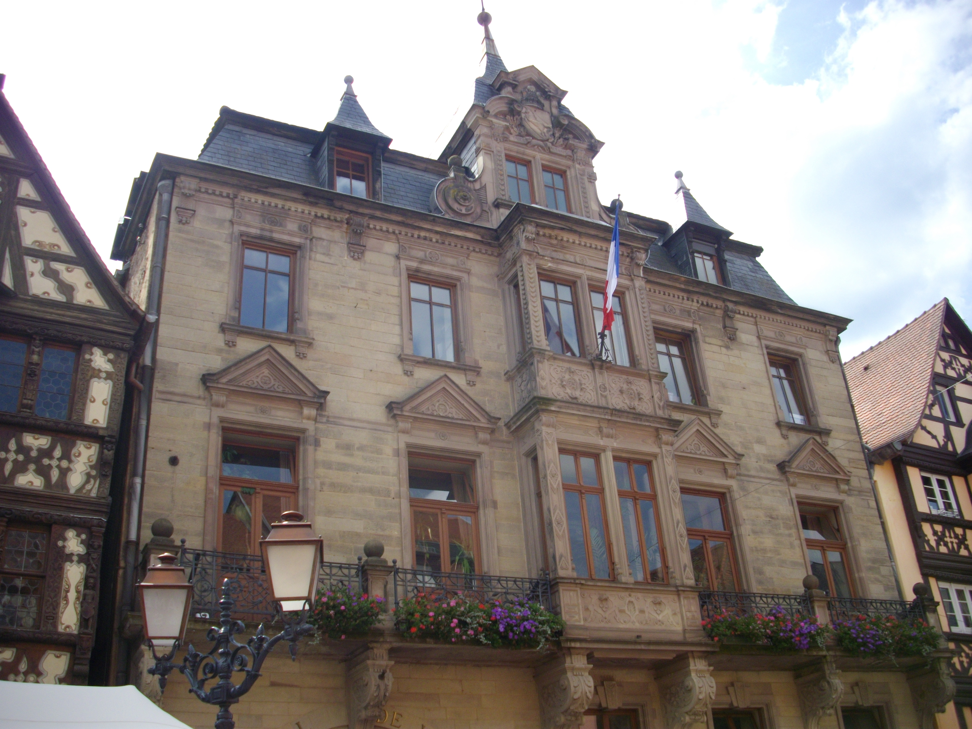 Town hall of Saverne (Bas-Rhin, France)